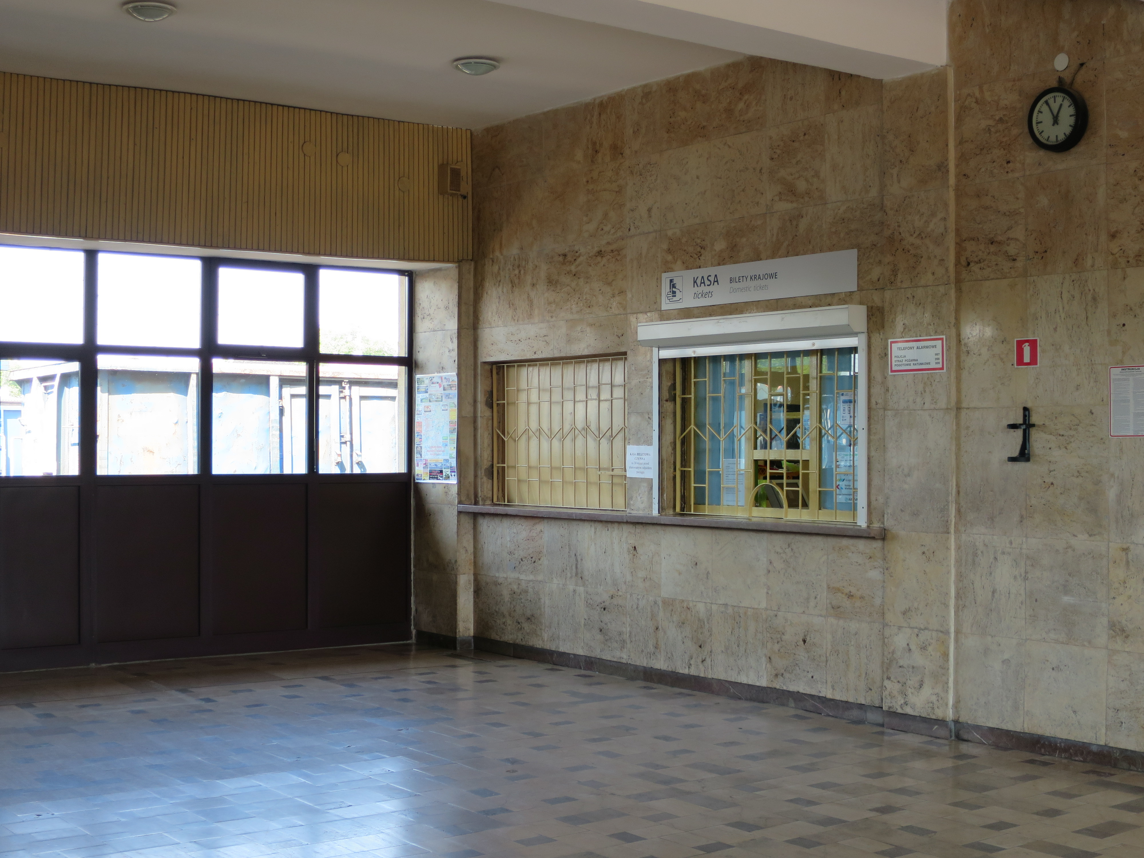 Rogów This photo was taken during Railway Wikiexpedition 2015 set up by Wikimedia Polska Association in cooperation with Fundacja Grupy PKP. You can see all photographs in category Wikiekspedycja kolejowa 2015.